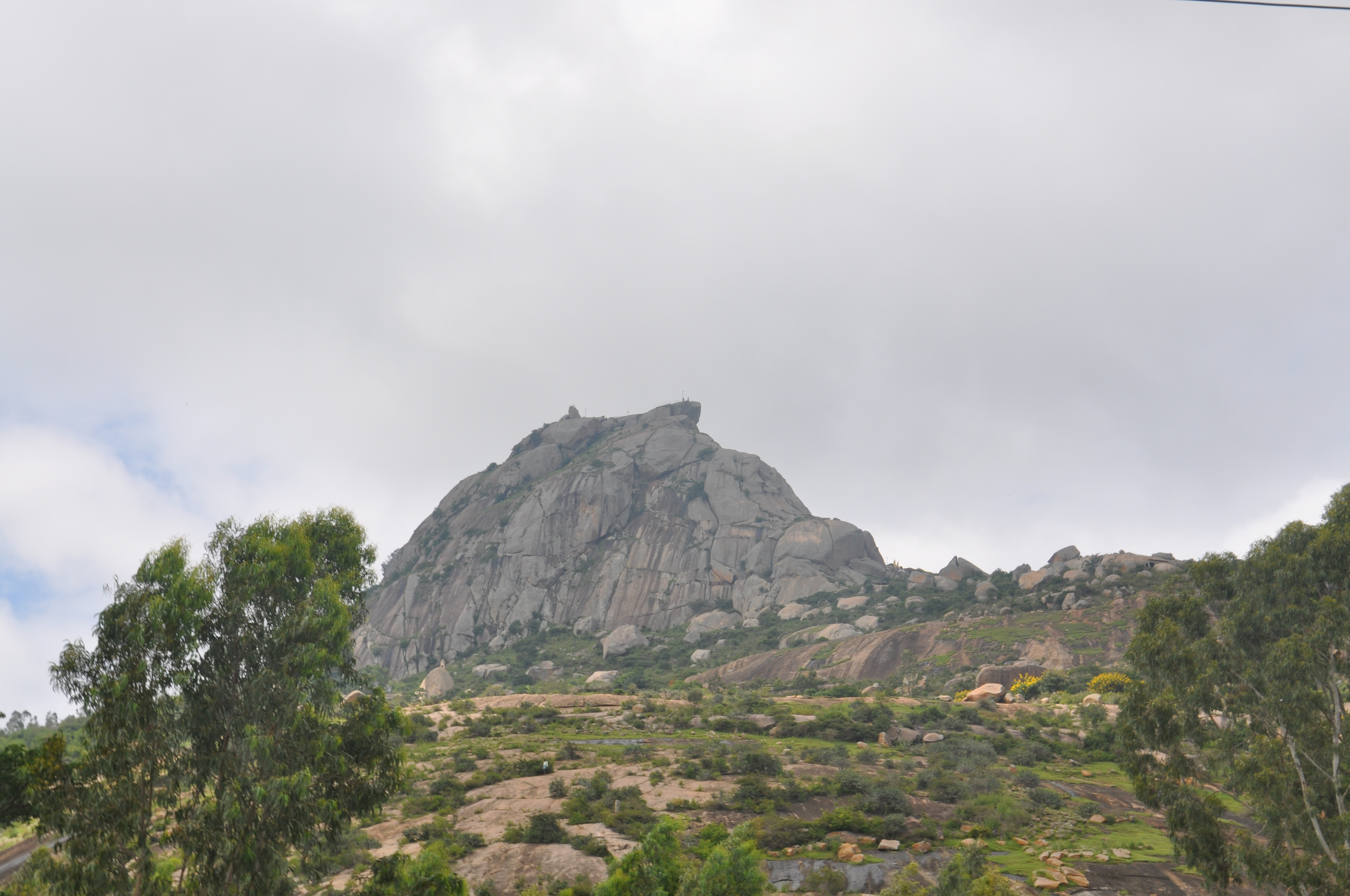 Shivagange